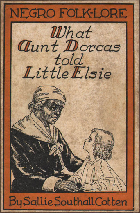 WHAT AUNT DORCAS TOLD LITTLE ELSIE (Negro Folk-Lore). Sallie Southall Cotten.1923